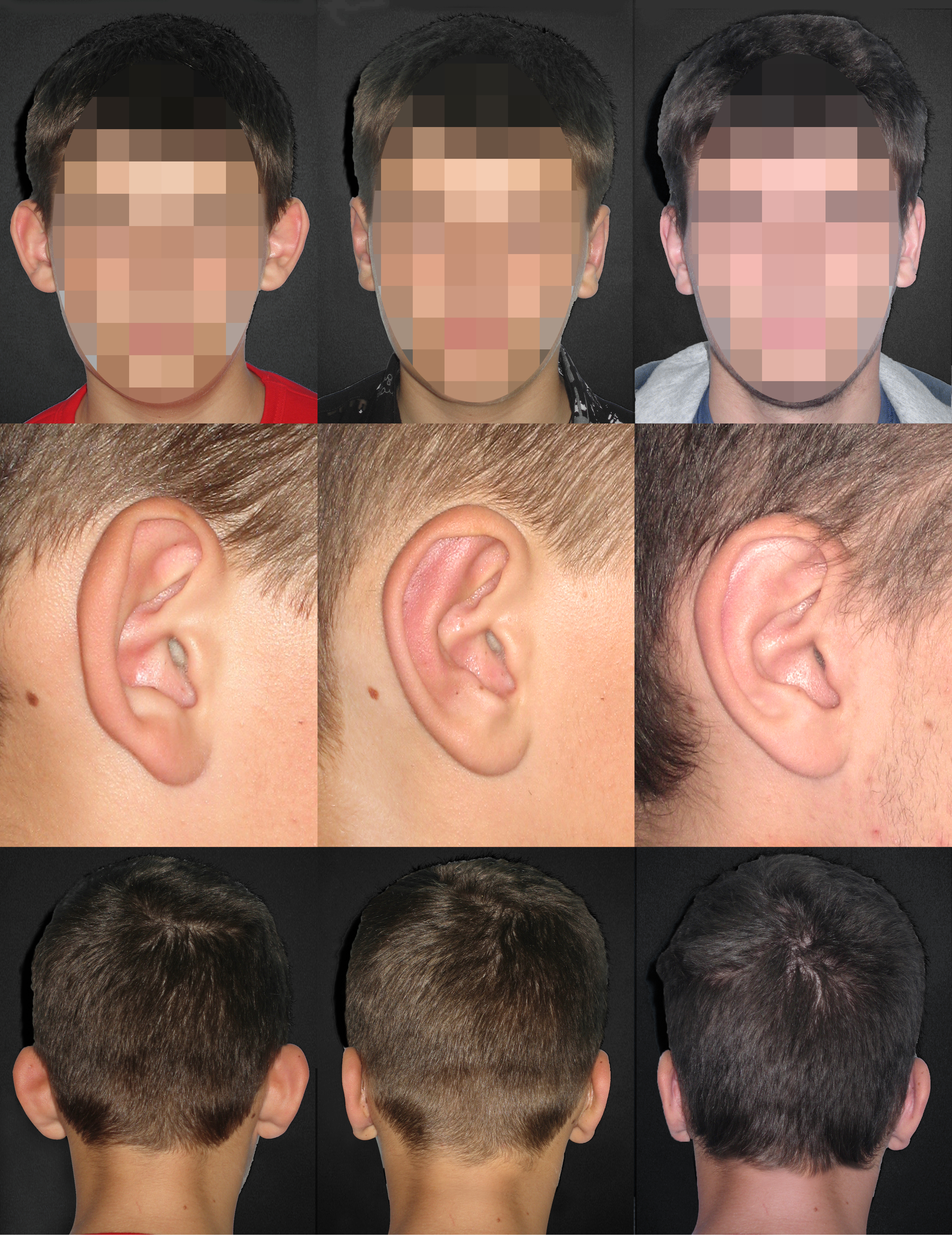 Procedure otoplasty: foto before surgery, in a month and in a 5 years Surgeon Oleg Tymofii